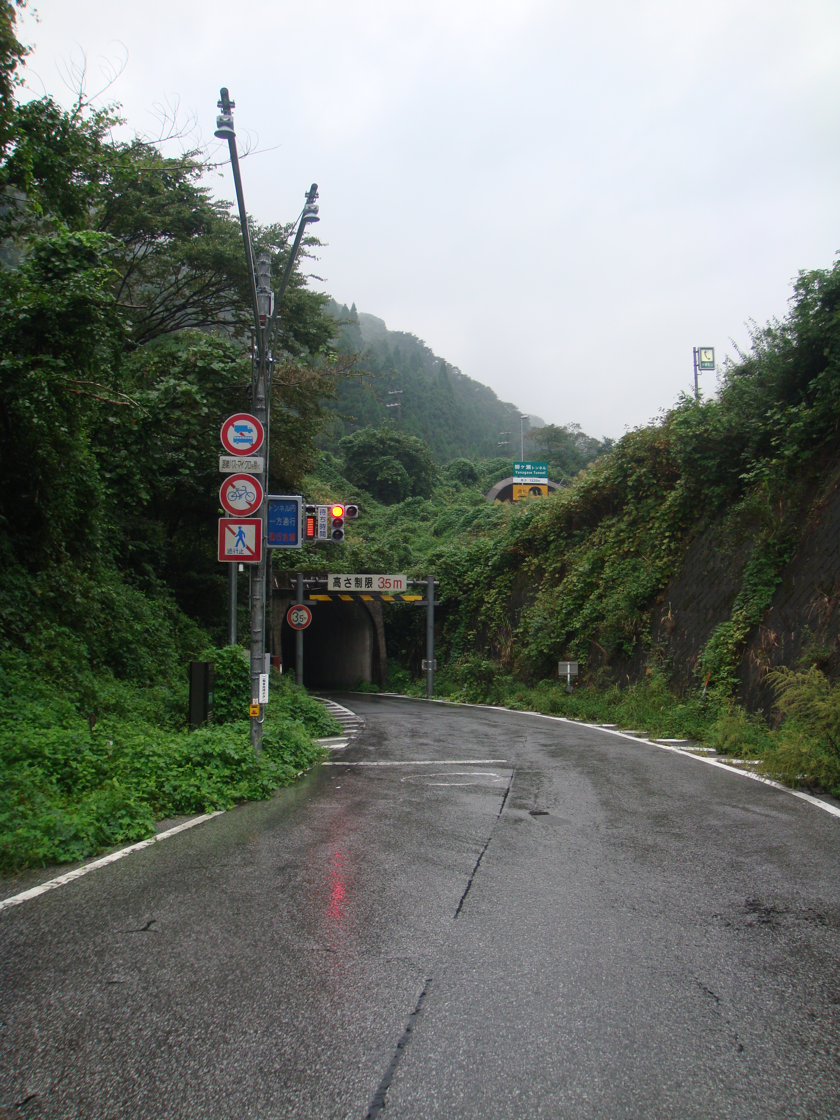 Yanagase Tunnels （The upper tunnel is Yanagase tunnel of the Hokuriku Expressway and the lower tunnel is Yanagase tunnel of Fukui Prefectural Road, Shiga Prefectural Road Route 140（the former Hokuriku main line）. Place - Yogocho-Tsubakisaka,Nagahama City,Shiga Prefecture,Japan Date - September 21, 2010 Format - JPEG, 3648x2736pixel, 24bit colors Photographer - NALA Wiki (talk)